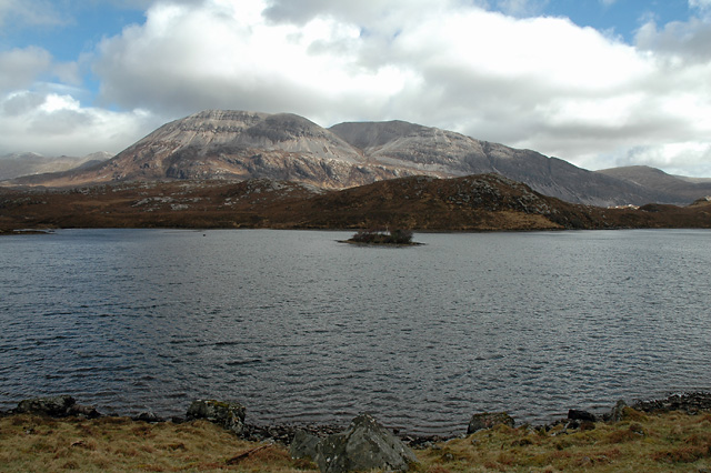 Loch Stack Arkle in the distance